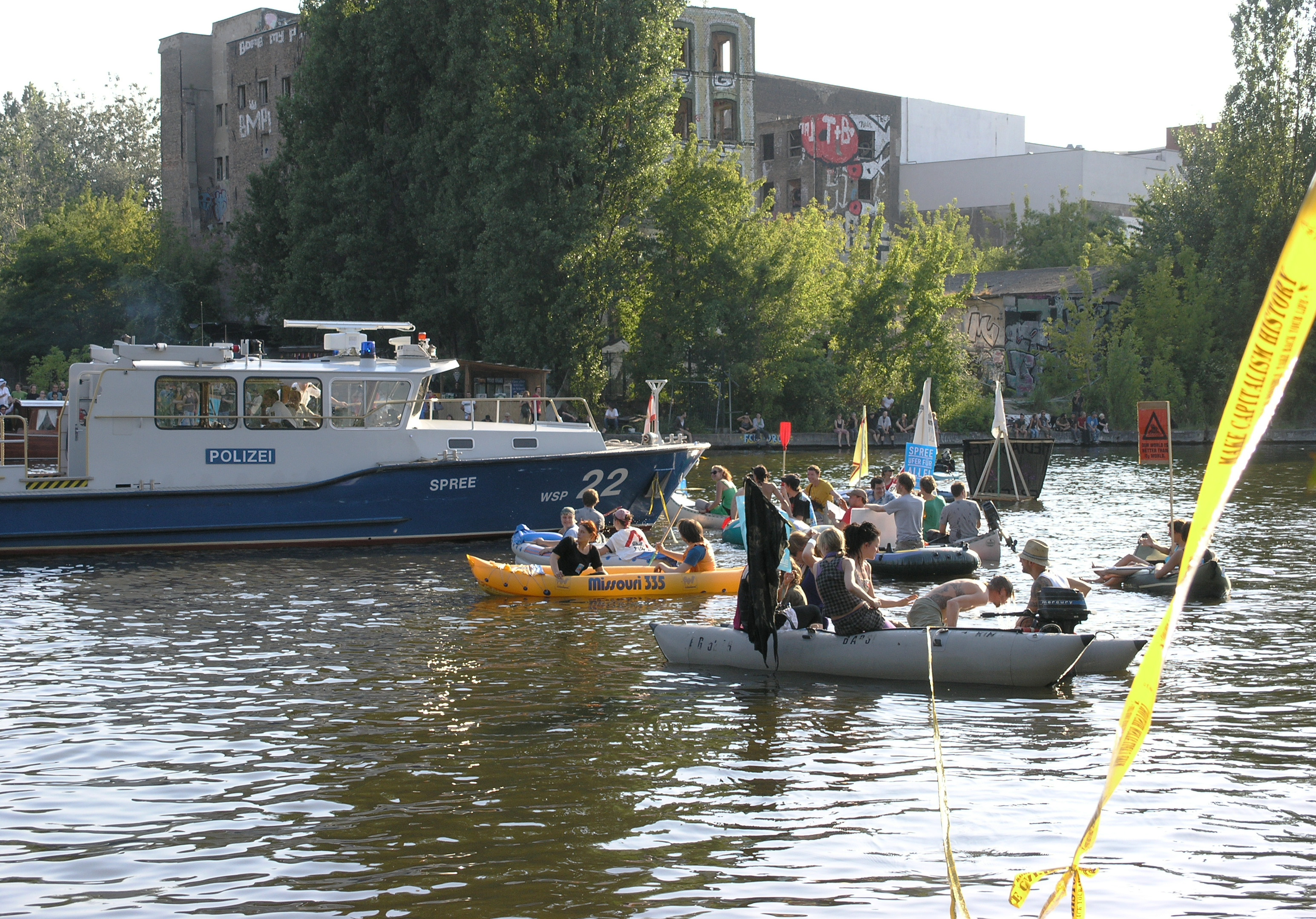 Ship of the Berlin police with demonstrators.